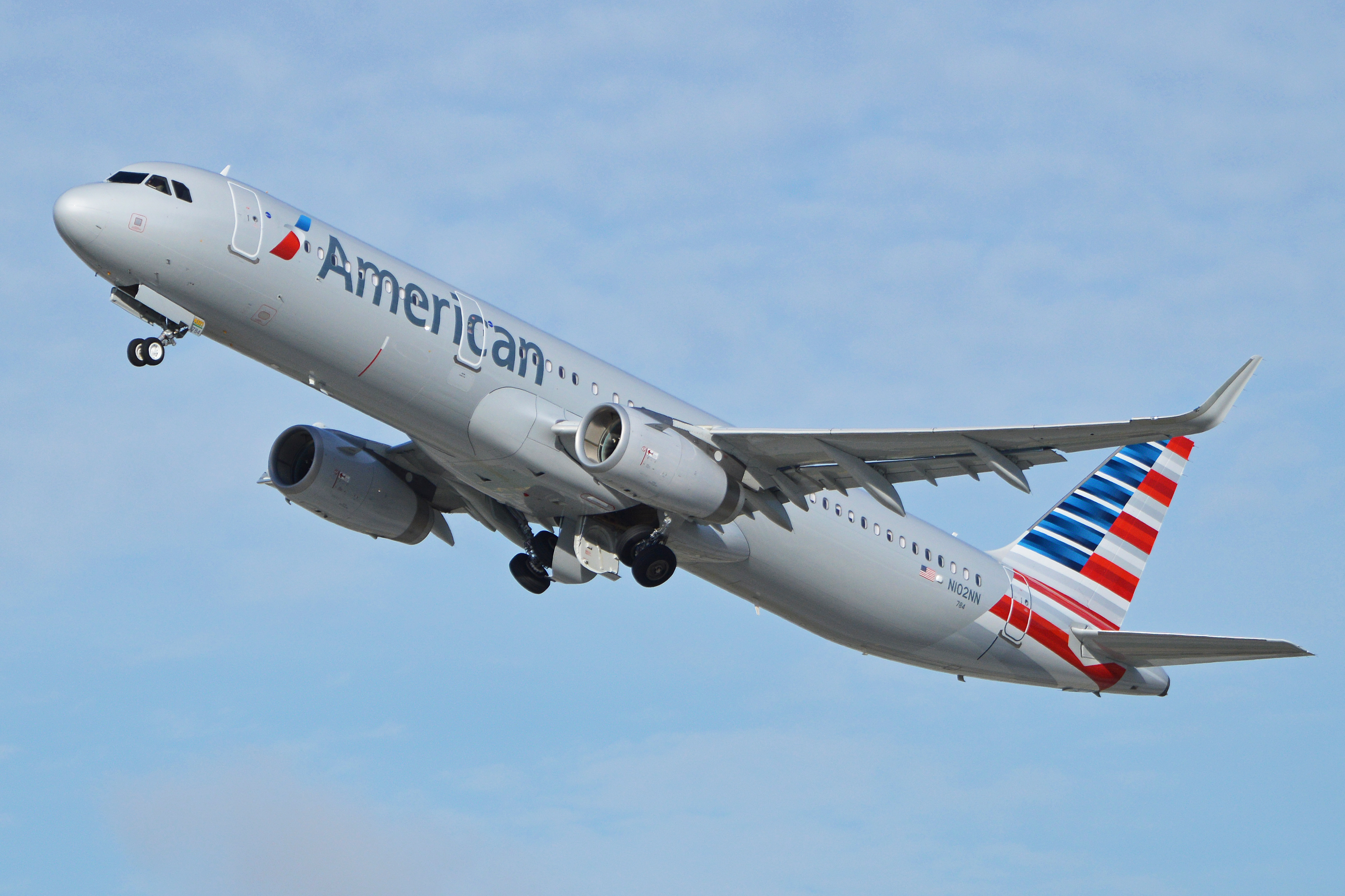 c/n 5860. Built in 2013. Seen departing LAX and taken from the Imperial Hill spotting location. Los Angeles, California, USA. 08-2-2014